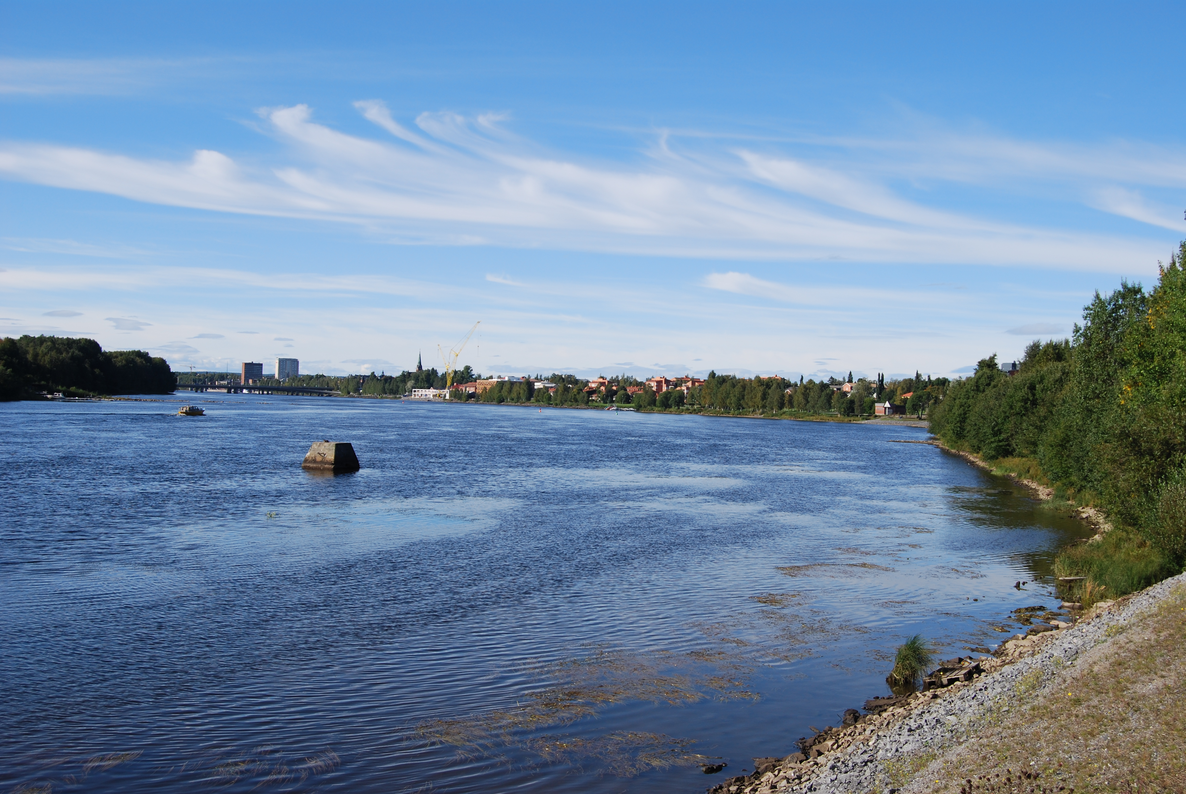 Ume River in Umeå